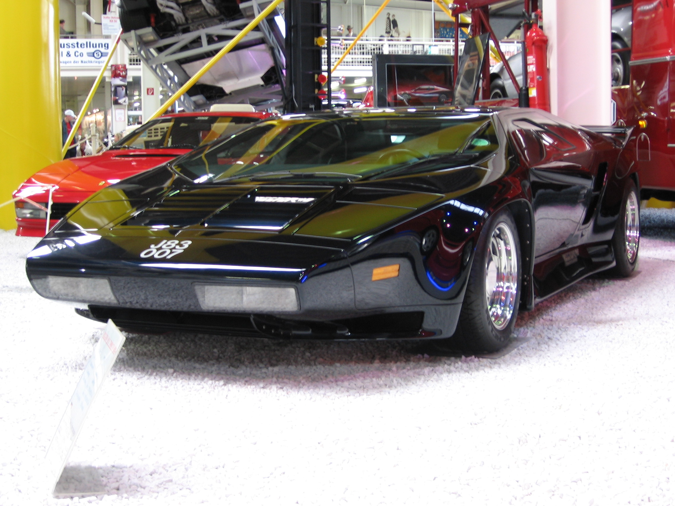 A Vector W8 Twin Turbo from 1992 at the Auto- und Technikmuseum Sinsheim / Germany. Picture taken in may 2006 by Christian Kath (me).